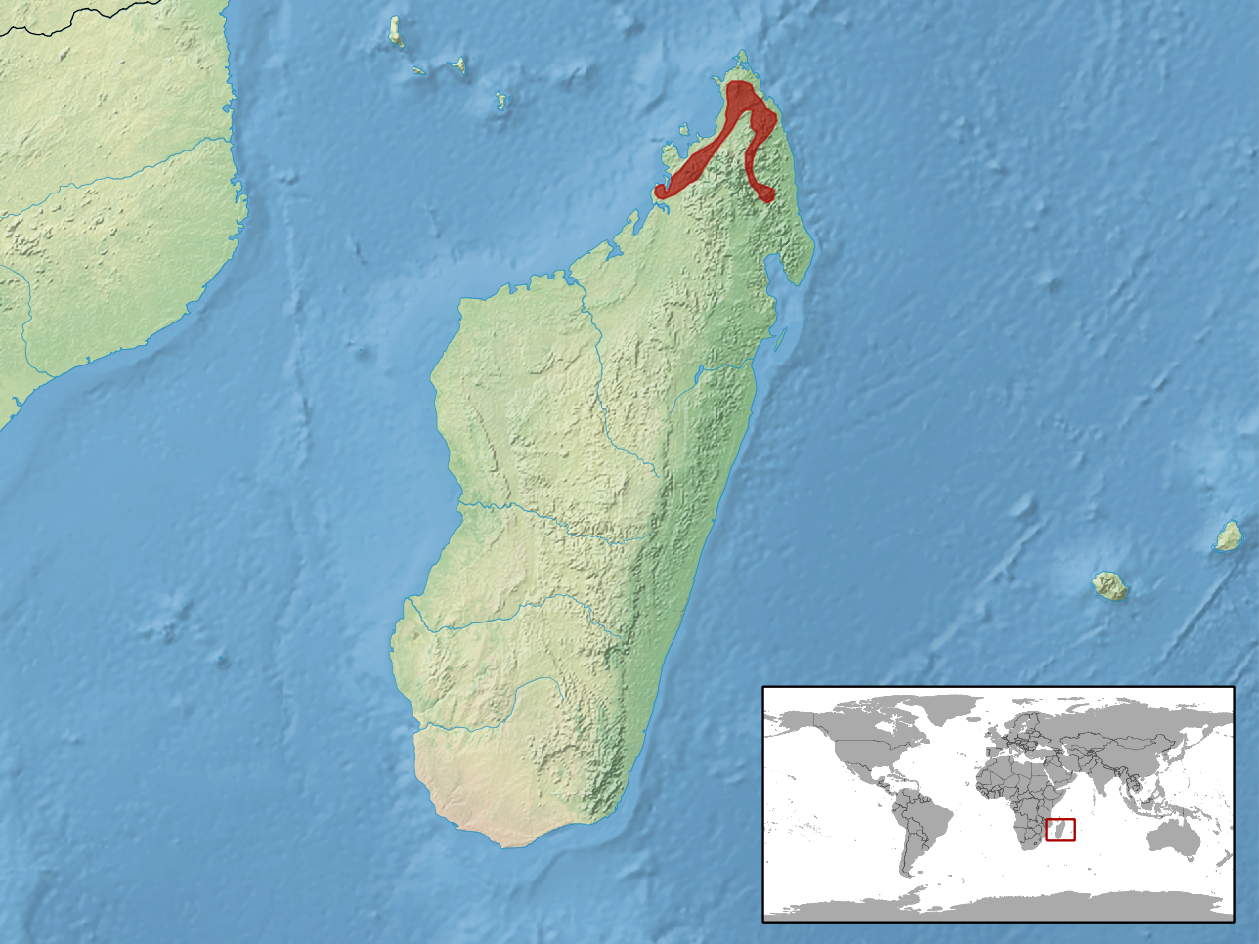 geographic distribution of Amphiglossus mandokava